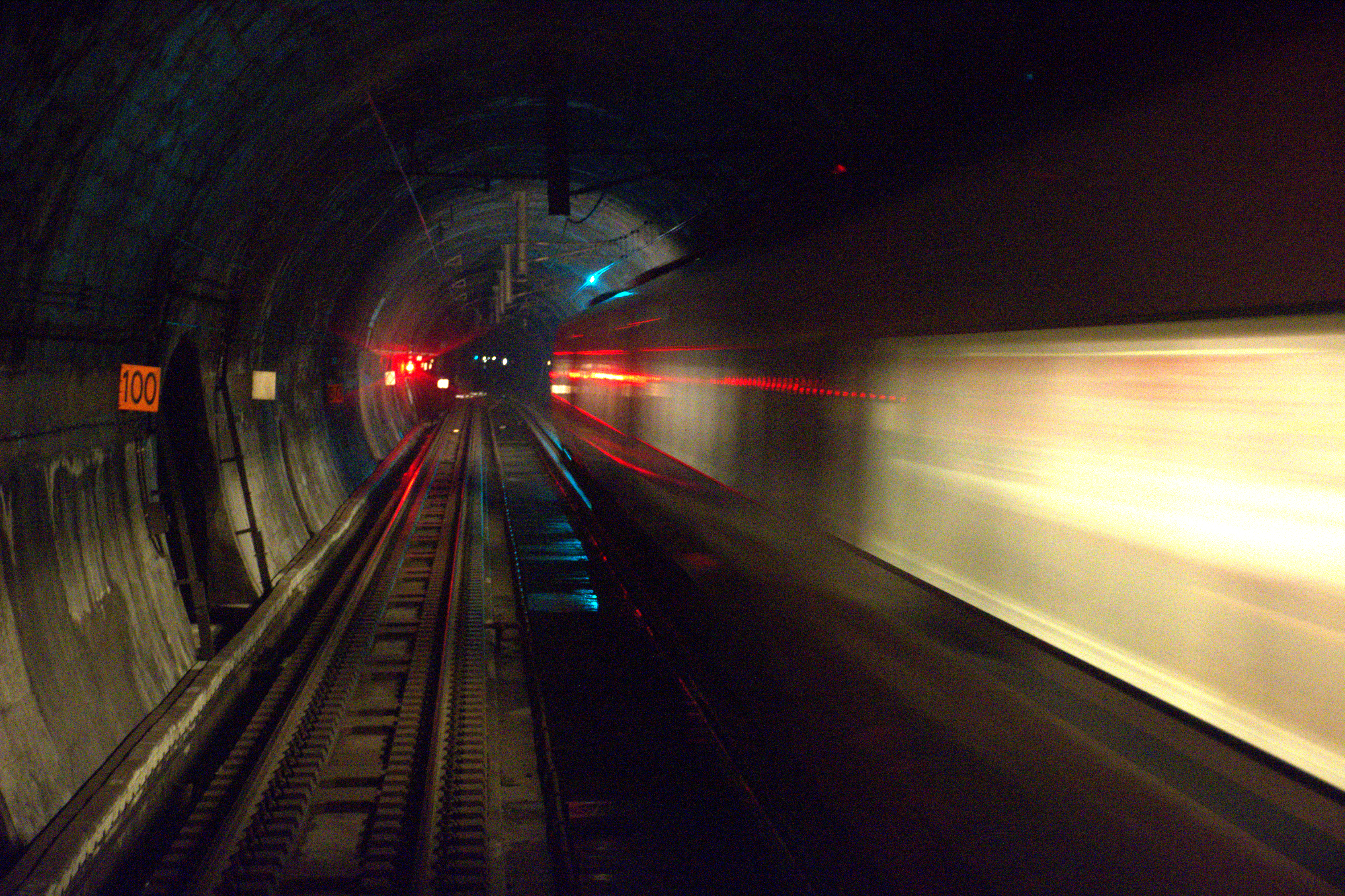 Gimyo signal station and the limited express "Hakutaka". (Taken on the local train in passing loop)